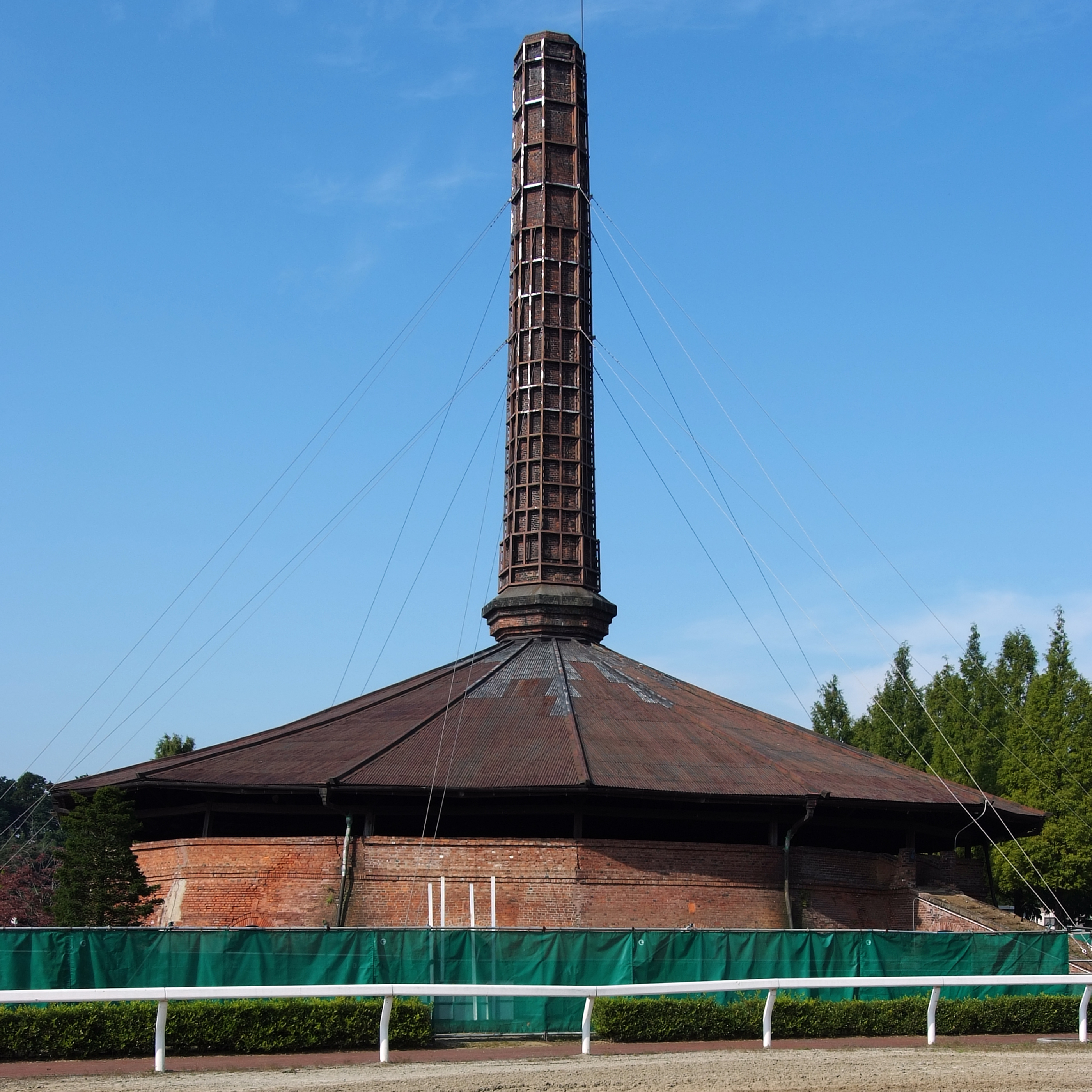 Hoffmann ring kiln belonged to Shimotsuke Brickyard Co.,Ltd., built in 1889, Nogi Town, Tochigi, Japan. Important Cultural Properties of Japan.